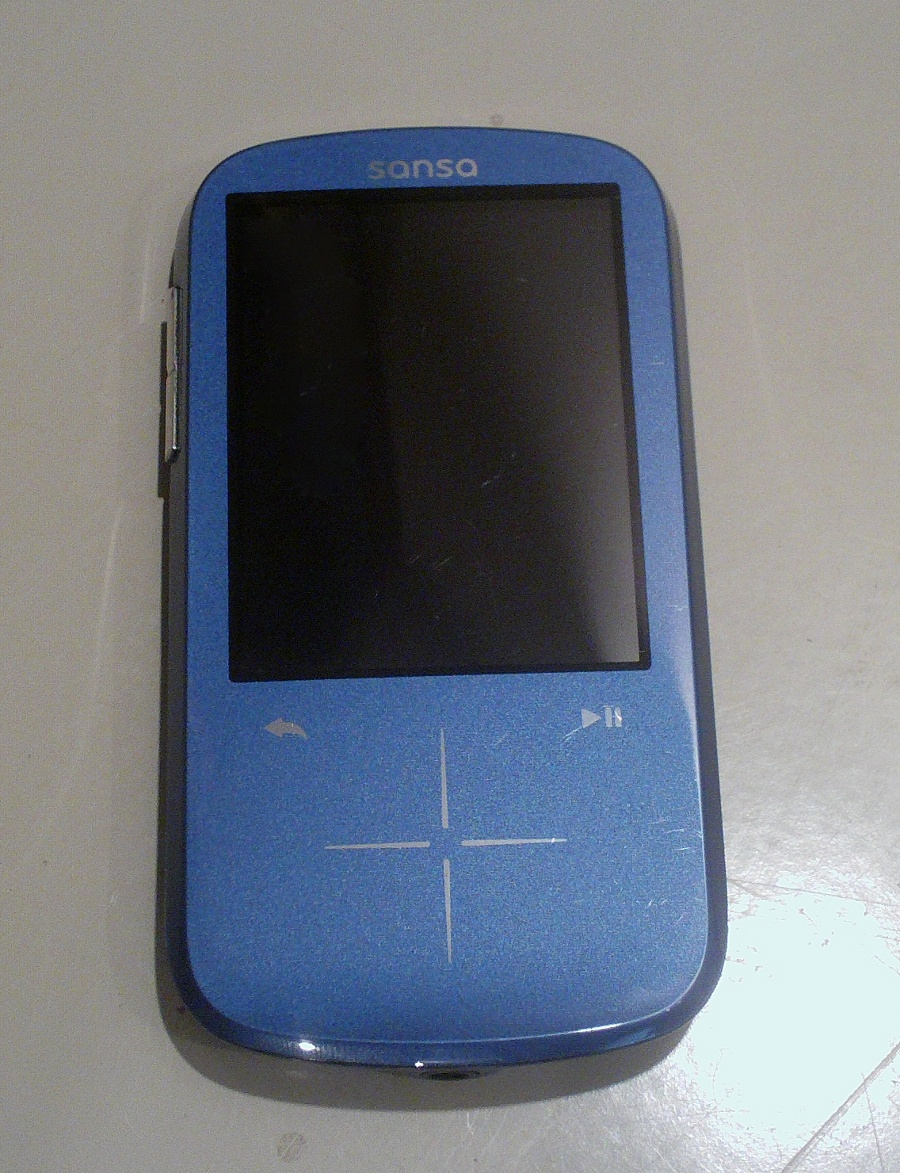 The Sansa Fuze+ portable media player by SanDisk. (If you have a better image, please upload it)